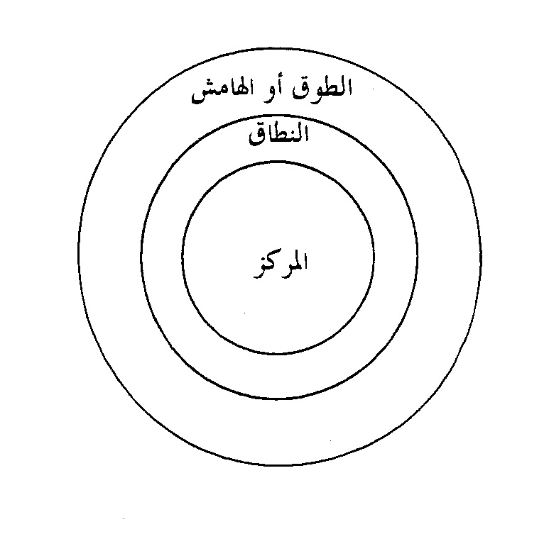 It is Early Islamic Coin Diagram, struck by Muslim Caliphs during Muslim Caliphate Era from 79 Hijra to 656 Hijra.